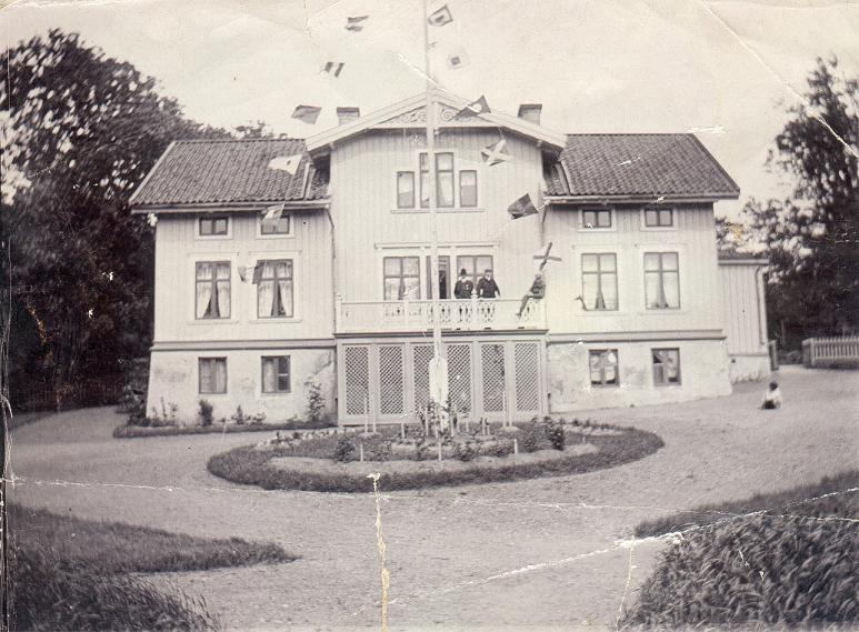 Hökälla seat farm in Säve socken in Hisingen Island, Gothenburg